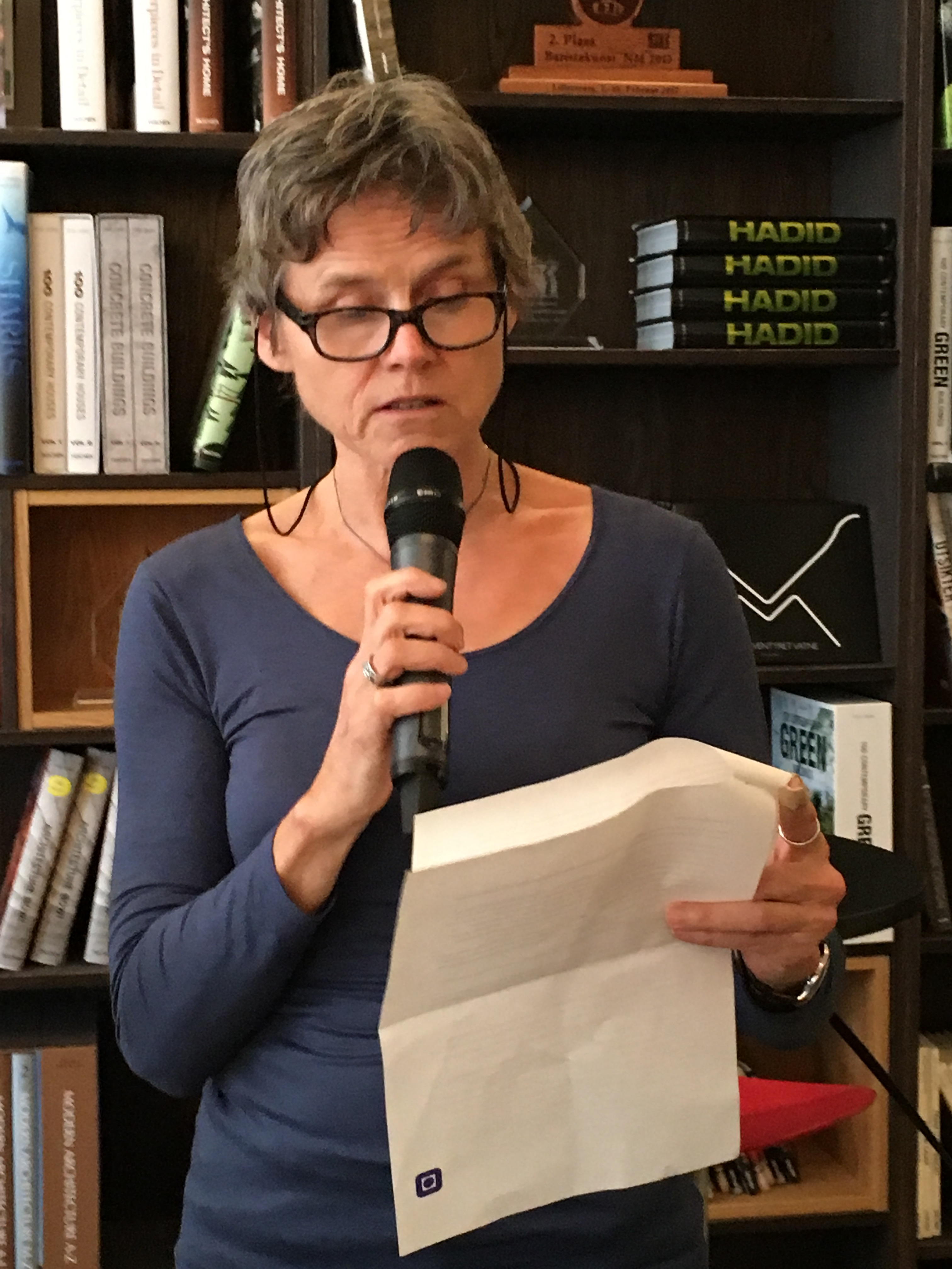 The Norwegian sociologist Agnes Bolsø in Litteraturhuset, Trondheim